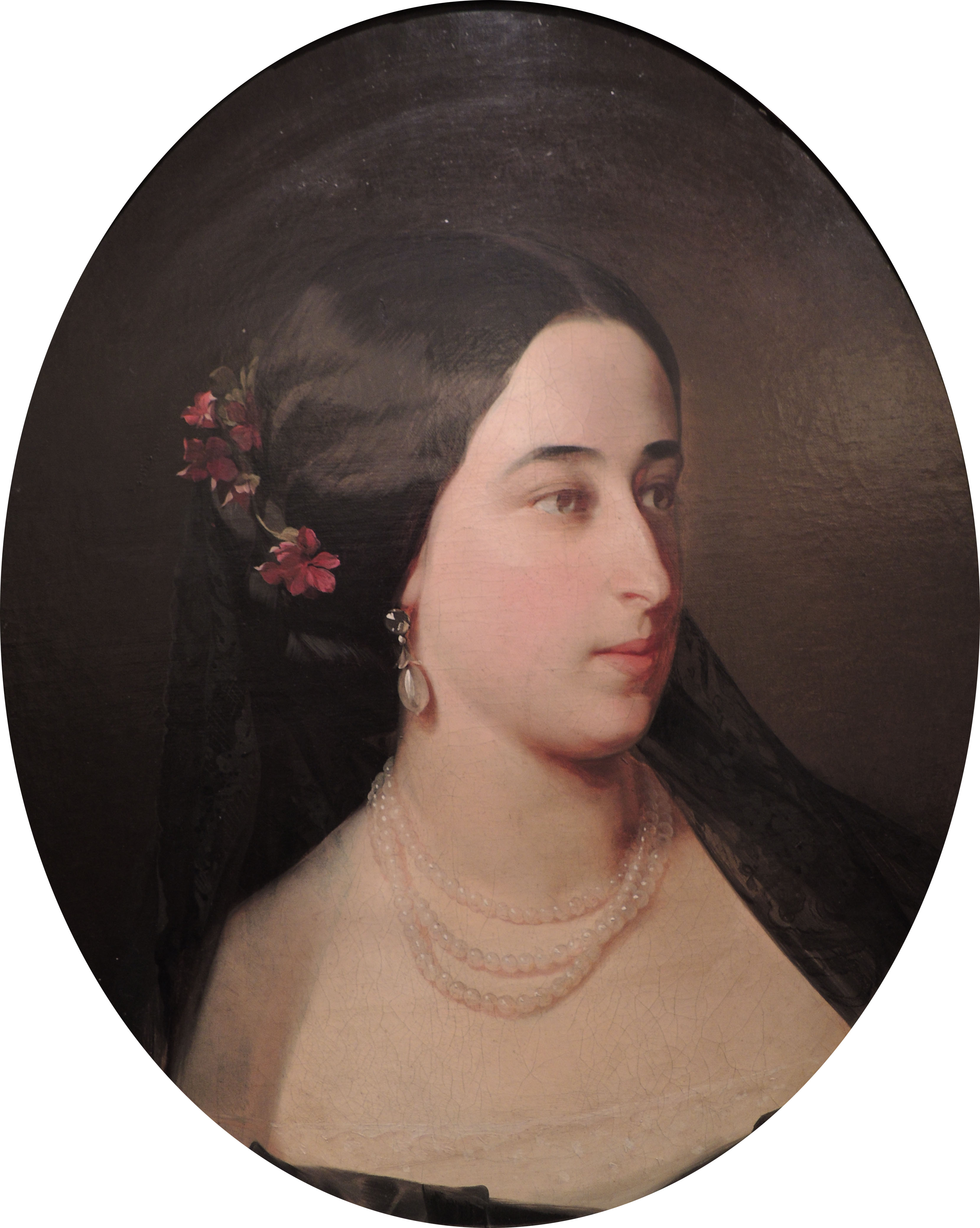 Maria Aleksandrovna Pushkina (1832-1919)